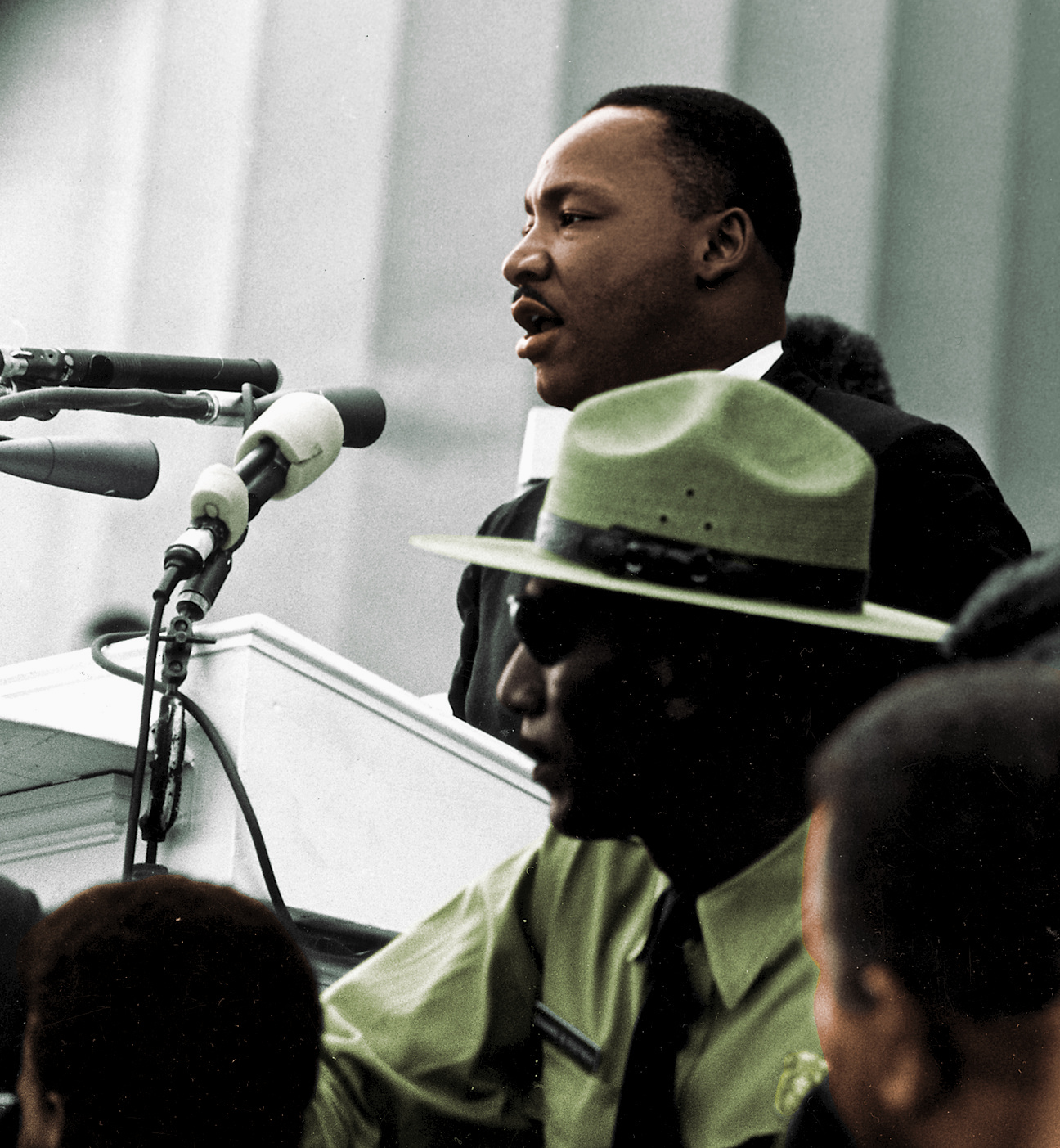 Martin Luther King colorized photo.